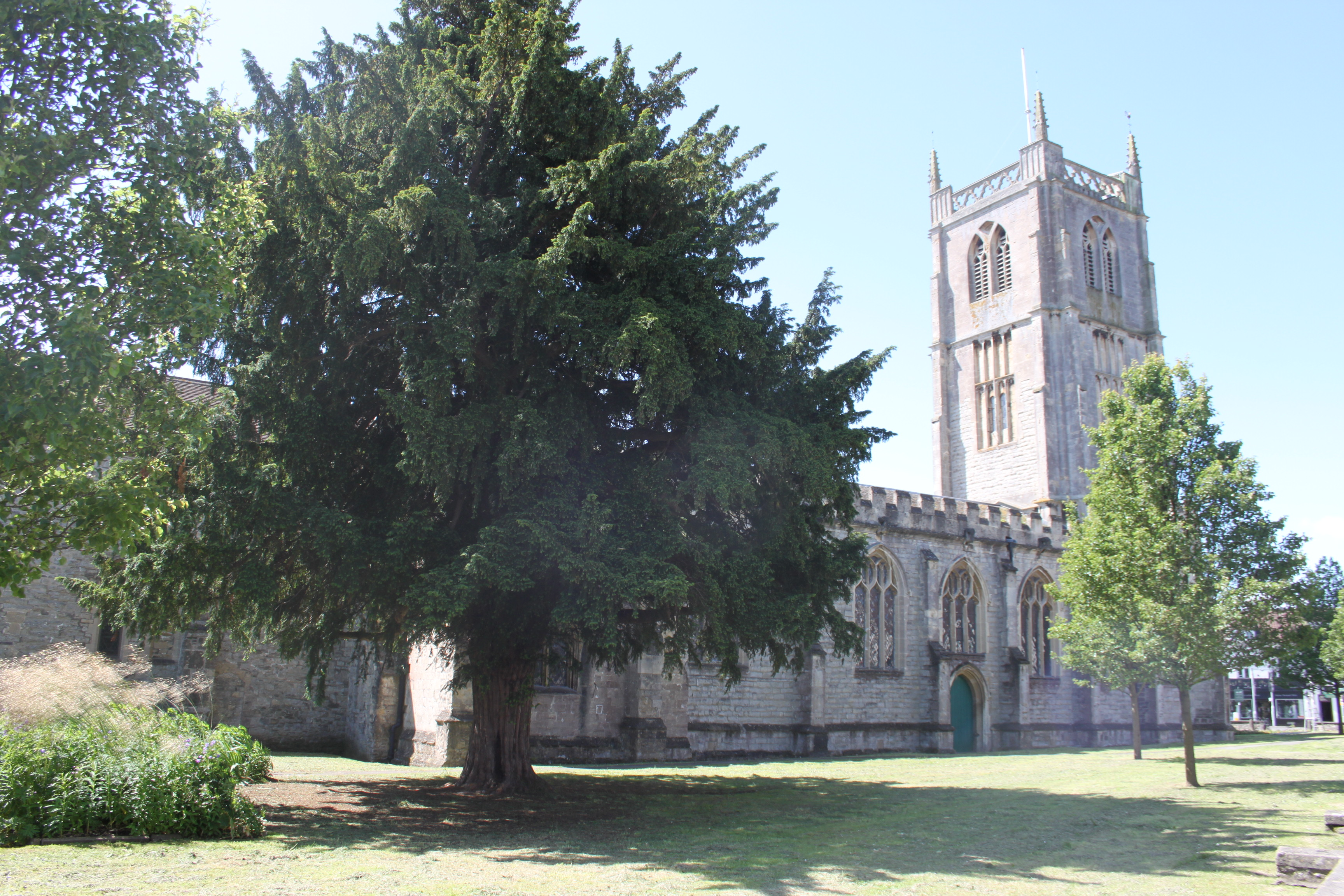 Church of St John the Baptist, Keynsham